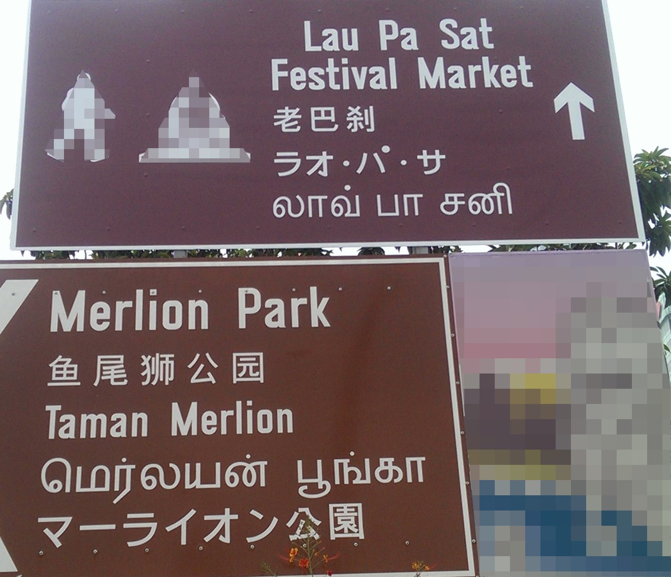 Signs pointing to Lau Pa Sat (Telok Ayer Market) and Merlion Park in Singapore, showing minor variations in the use of non-English languages. The Tamil translation of "Lau Pa Sat" is apparently incorrect.